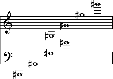 Notes, G Sharp